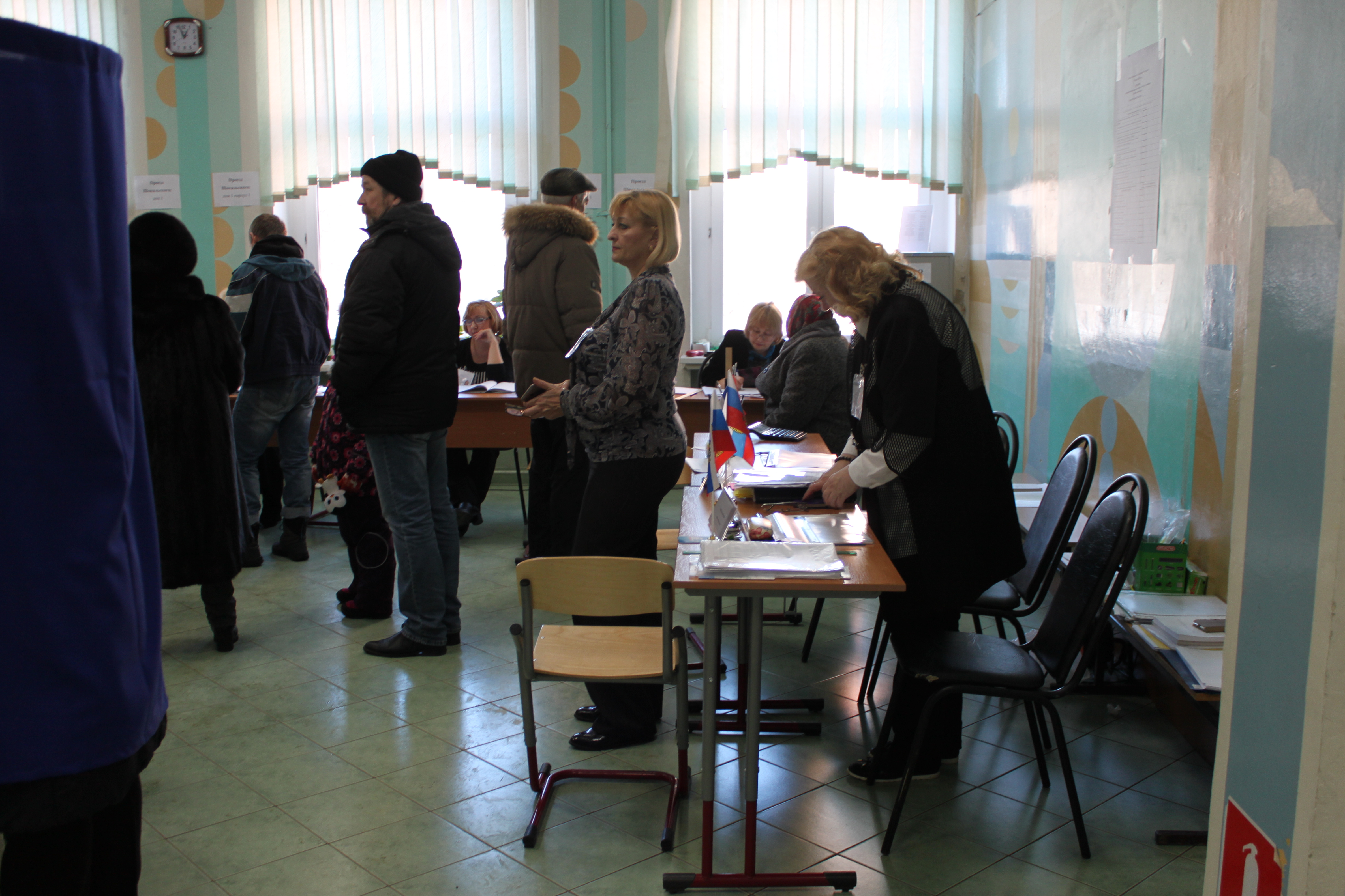 Russian presidential election 2018.